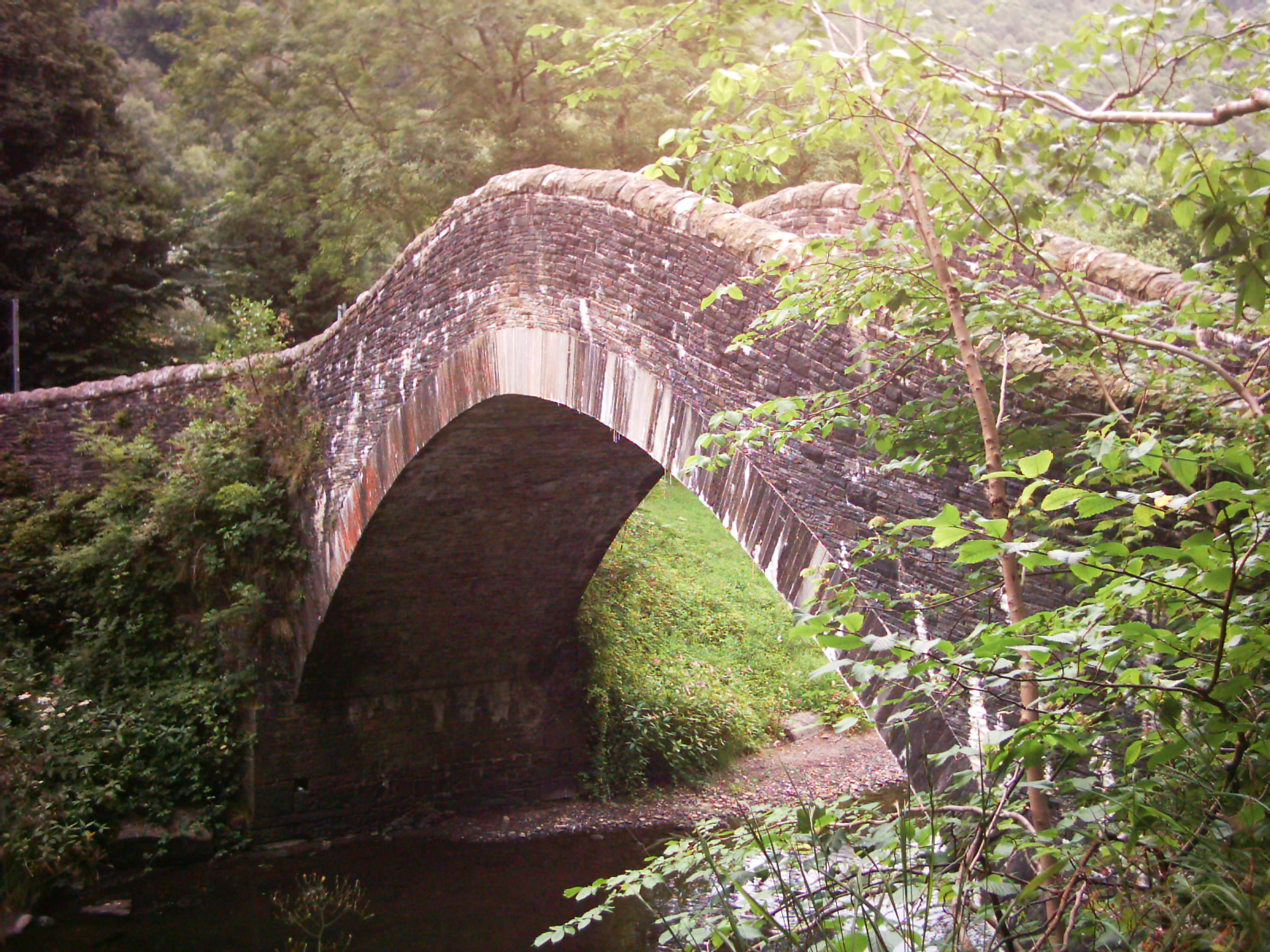 The bridge at Pontygwaith, built in 1811. Photo taken by User:Varitek July 2005